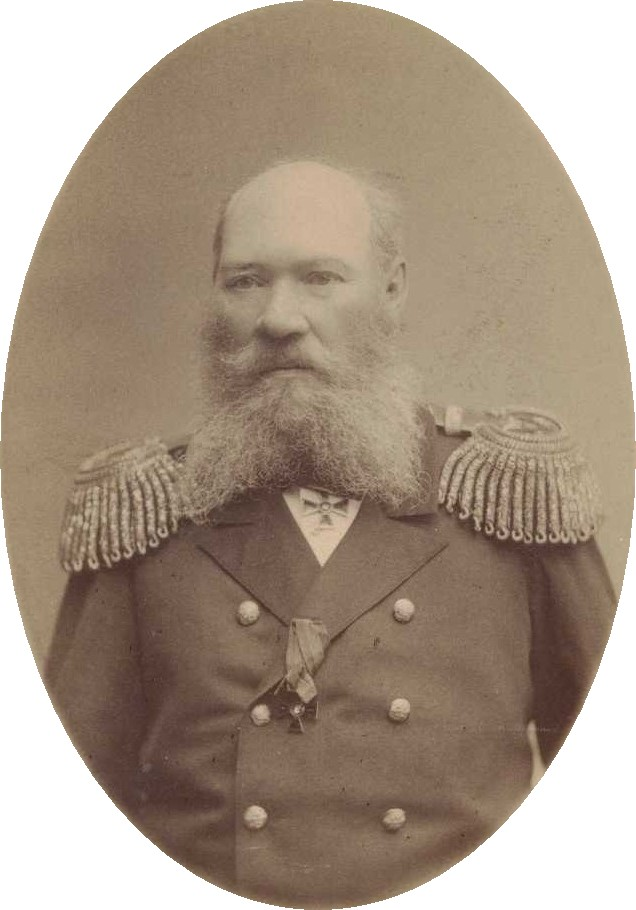 Kurt Fredrik Leonhard af Enehielm, about 1895, contr-admiral, Vladivostok port commander